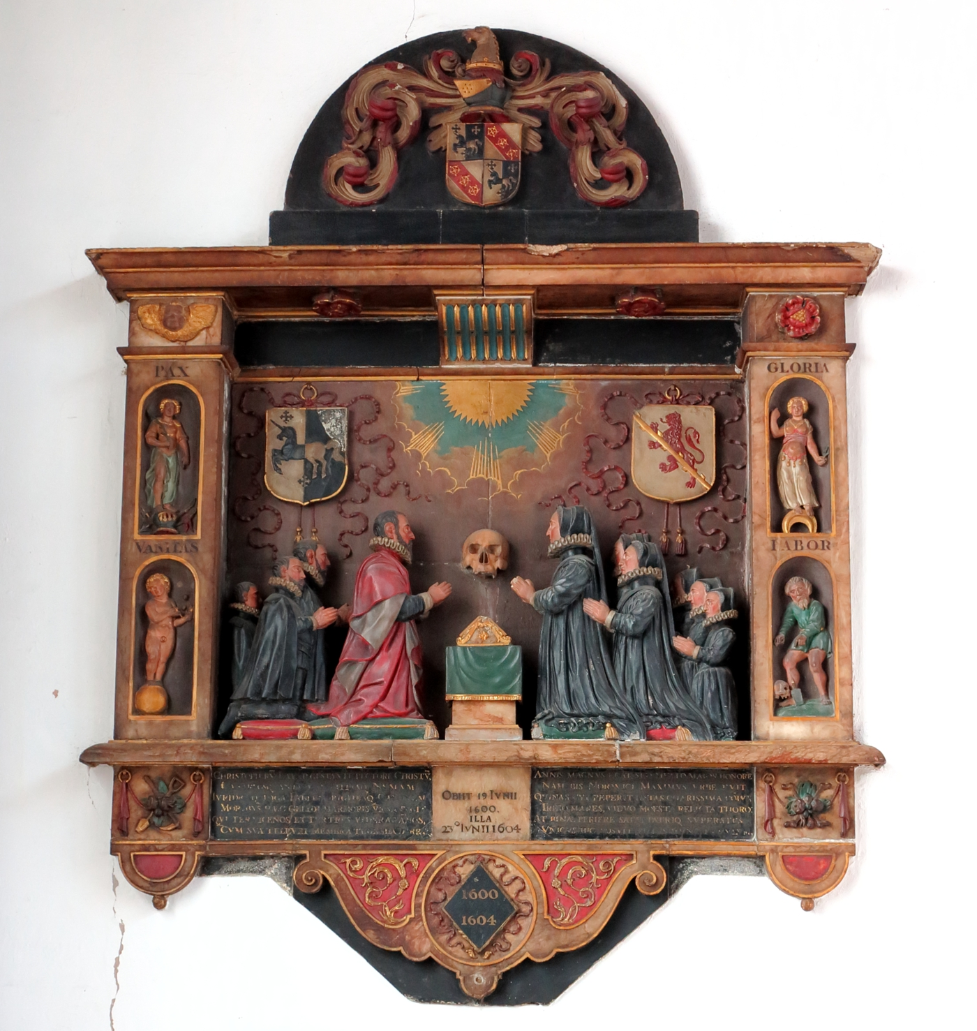 Layer Monument: The Layer Monument(circa 1600) marble mural monument with Northern Mannerist sculpture.